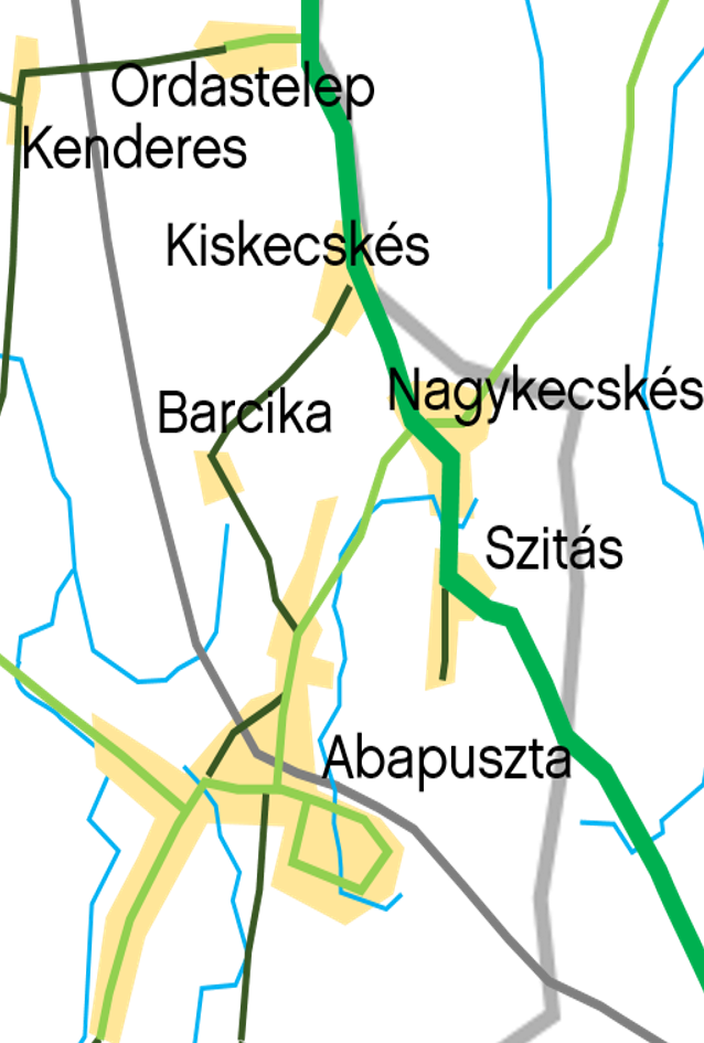 Abapuszta and its area